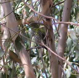 Not a good picture, but better than none